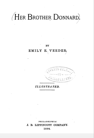 Her Brother Donnard, By Emily Elizabeth Veeder